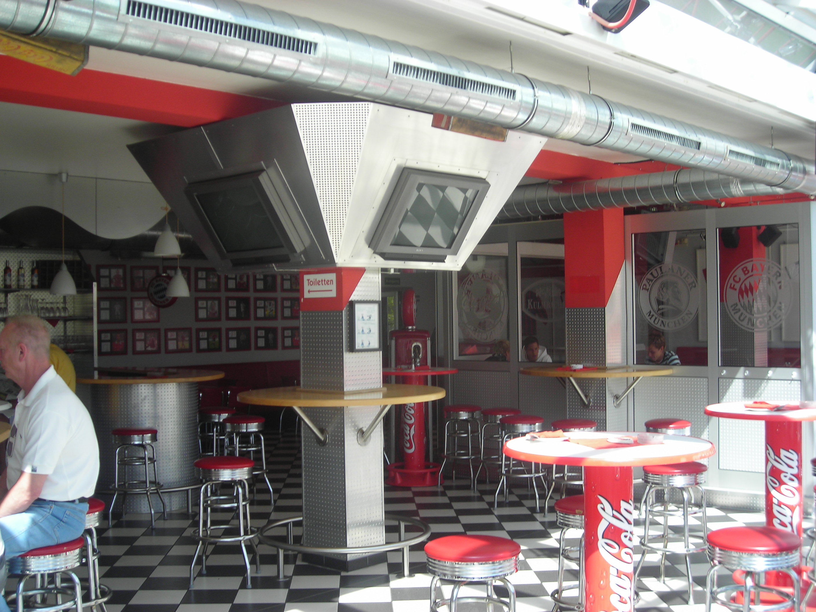 Bistro für Besucher des FC Bayern München .